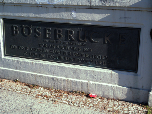 A tablet bearing the inscription at the bridge "Bösebrücke" in Berlin